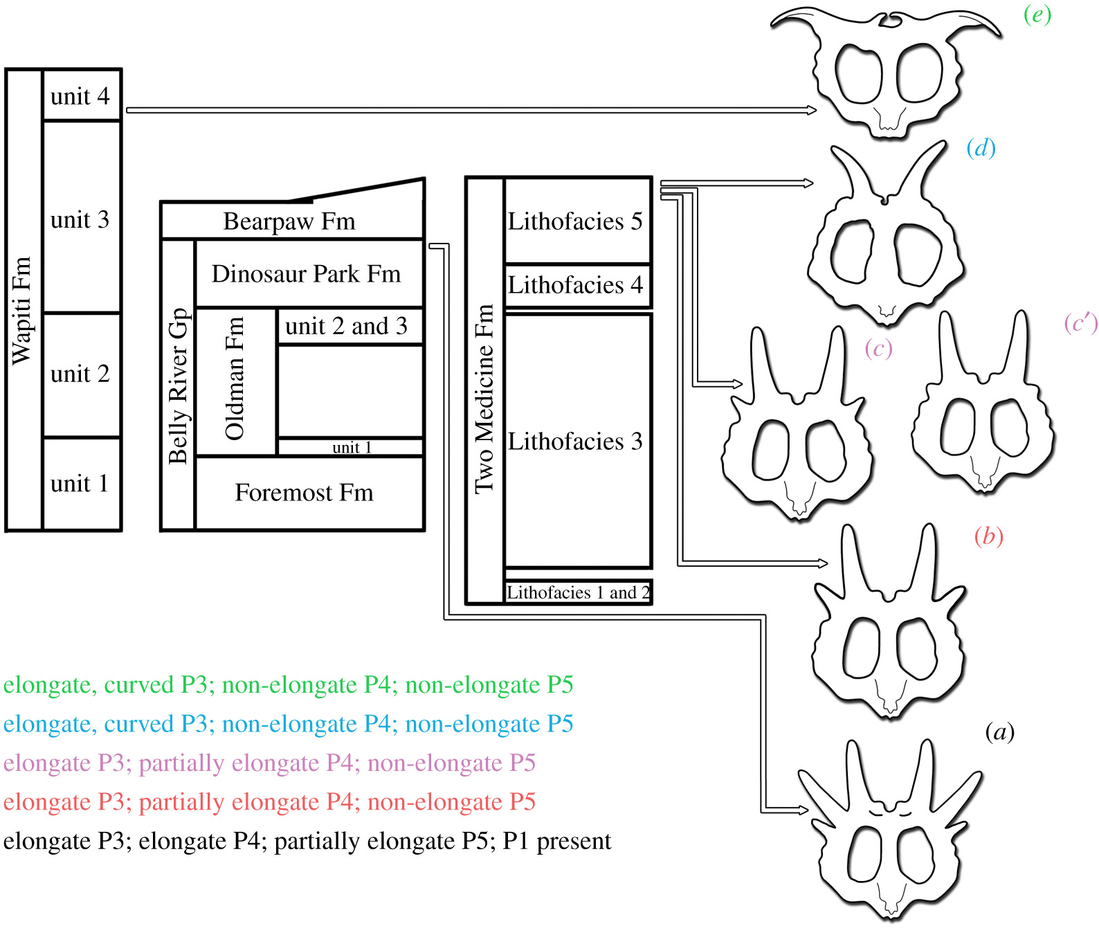 Stratigraphic and temporal relationship of the centrosaurine taxa hypothesized as representing an anagenetic lineage, with the evolution of their parietal ornamentation, within their respective geological formations. Letters are colour coded by taxon to match transformation of parietal ornamentation listed. (a) Styracosaurus albertensis, (b) Stellasaurus ancellae, (c) and (c') Einiosaurus procurvicornis MOR 373 and MOR 456, respectively, indicating slight stratigraphic separation with associated morphological change of the P4 process, (d) Achelousaurus horneri, (e) Pachyrhinosaurus lakustai. Generalized stratigraphic columns are based on [18]. Relative taxon placement is based on stratigraphic occurrence of specimens within their respective geological formations and the temporal relationships of host strata based on [18] (see Material and methods and Discussion). Styracosaurus ovatus is omitted due to its uncertain stratigraphic placement within the Two Medicine Formation. Parietal line drawings used and modified from Evans and Ryan ([22] fig. 15), Public Library of Science (PLoS), used under Creative Commons Attribution 4.0.